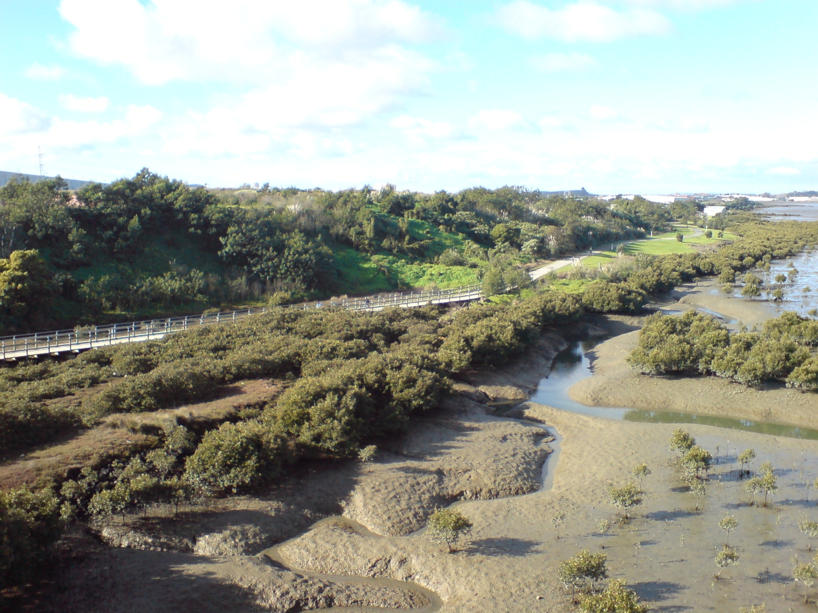 The Waikaraka Cycleway in Onehunga, New Zealand. Seen from the SH20 motorway bridge during the open day after construction was almost finished.